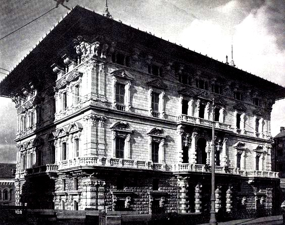 PALAZZO PASTORINO 1906 GENOVA (GE) by GINO COPPEDE